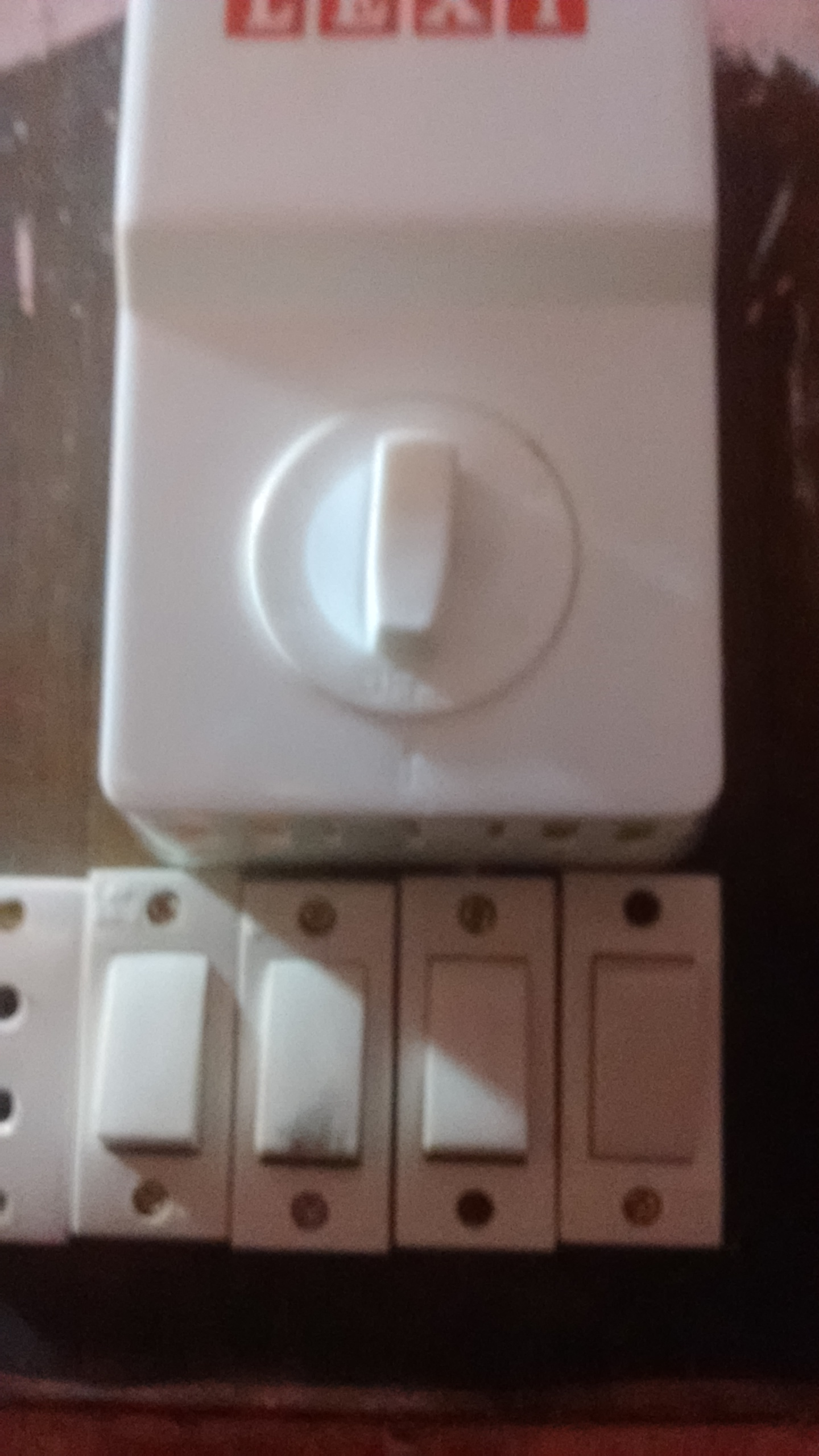 South Asian switchboard